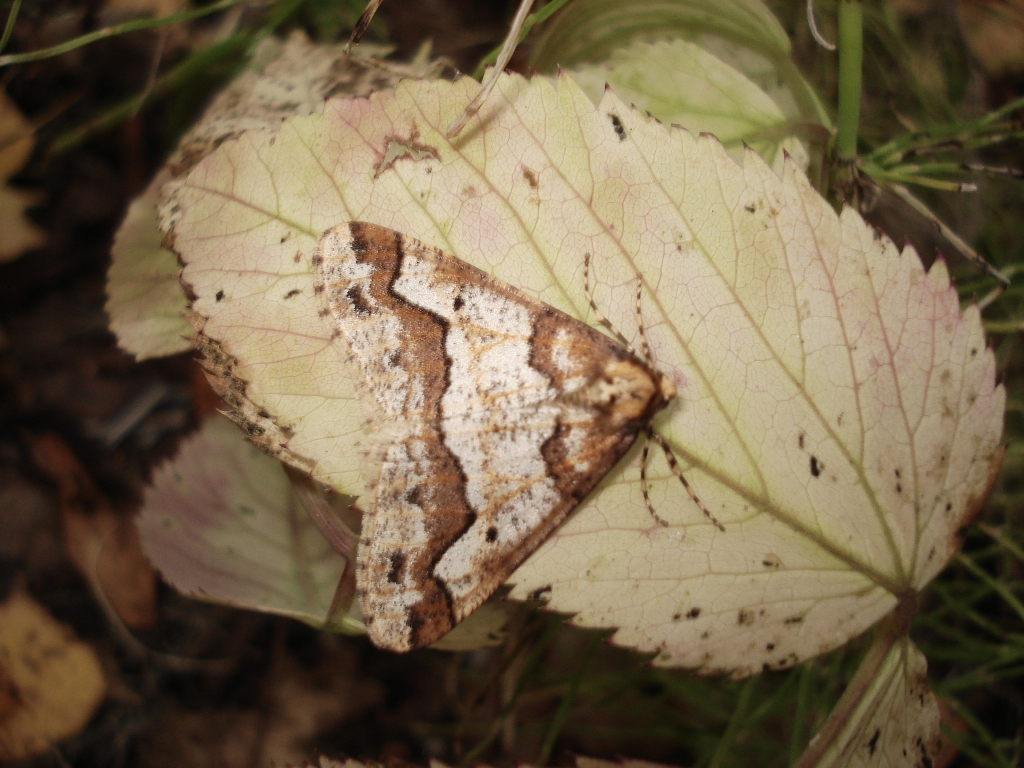 Mottled Umber